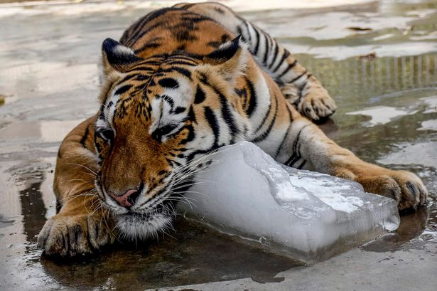 A Tiger in Karachi's Zoo cools off on an ice lump during the June'15 Heat Wave.